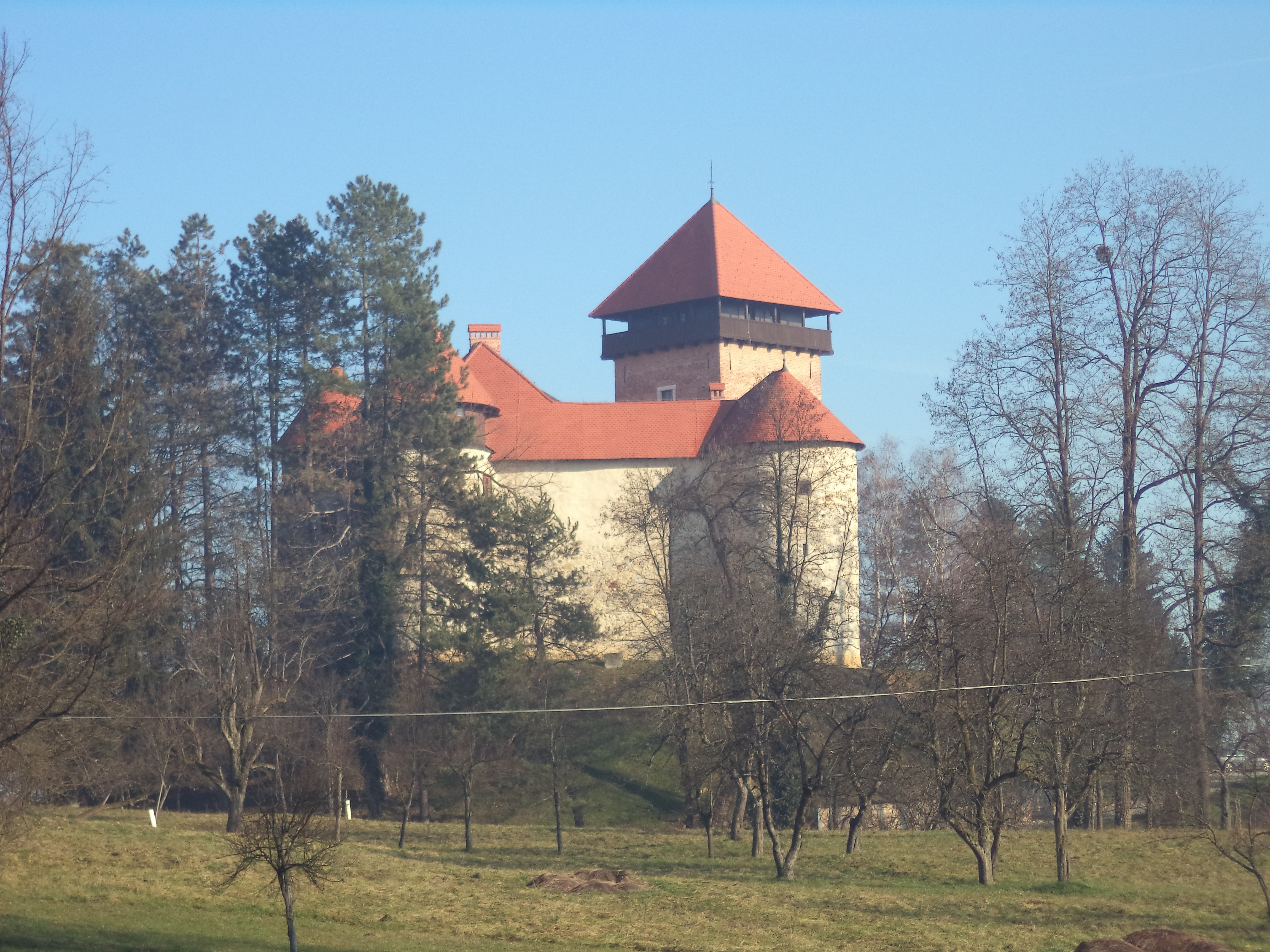 Dubovac Castle